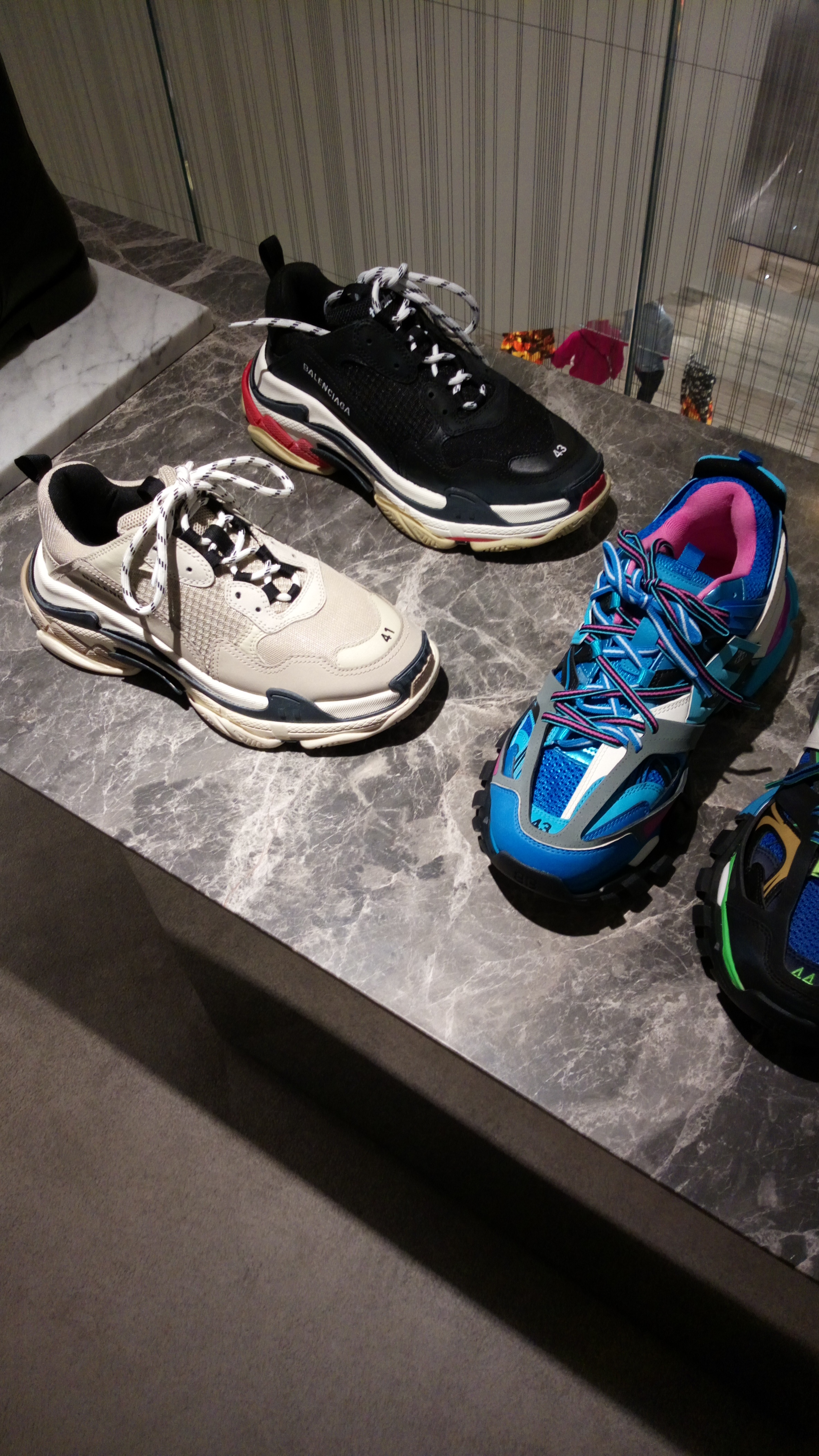 NYC, the United States of America